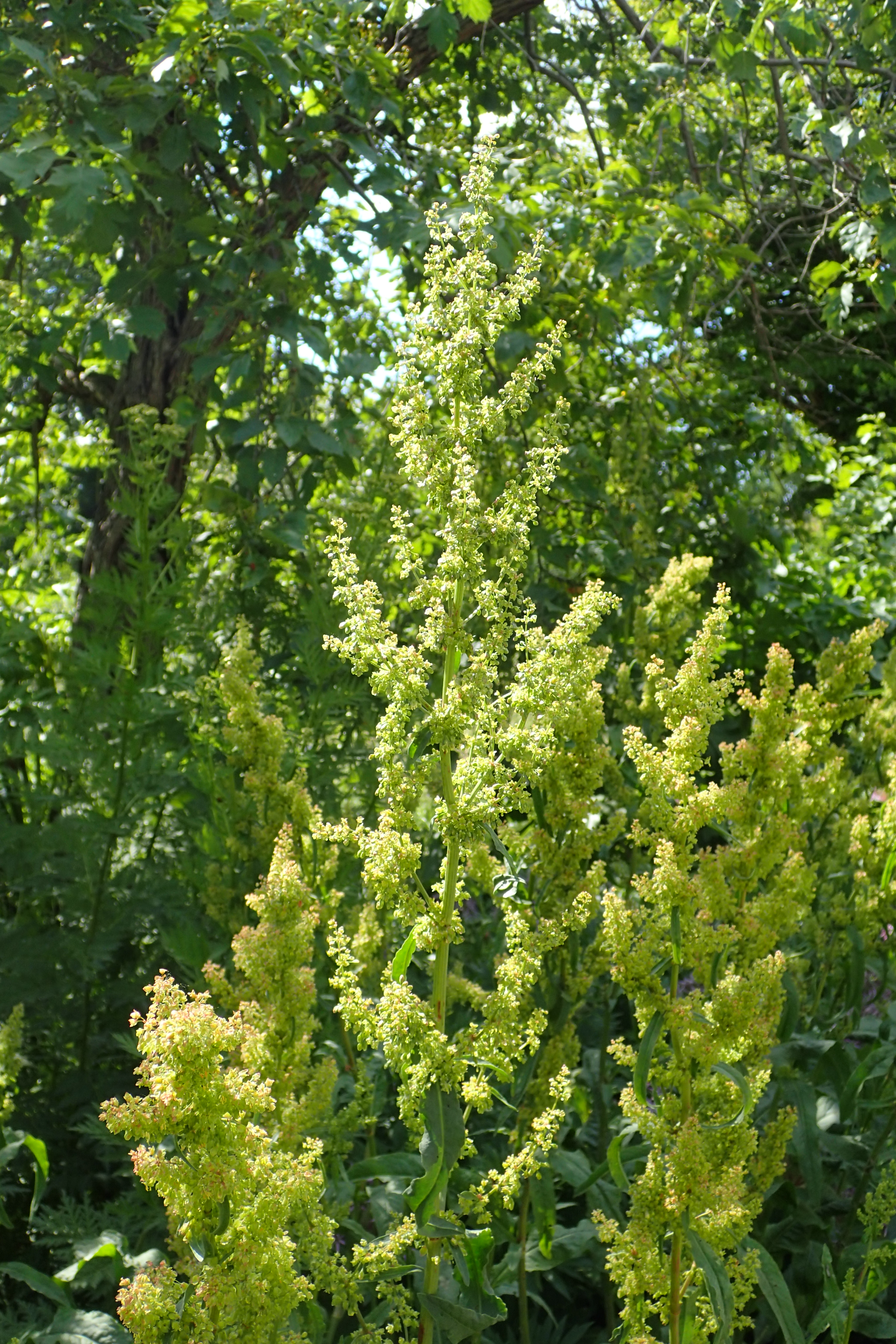 Rumex patientia in the Botanischer Garten, Berlin-Dahlem